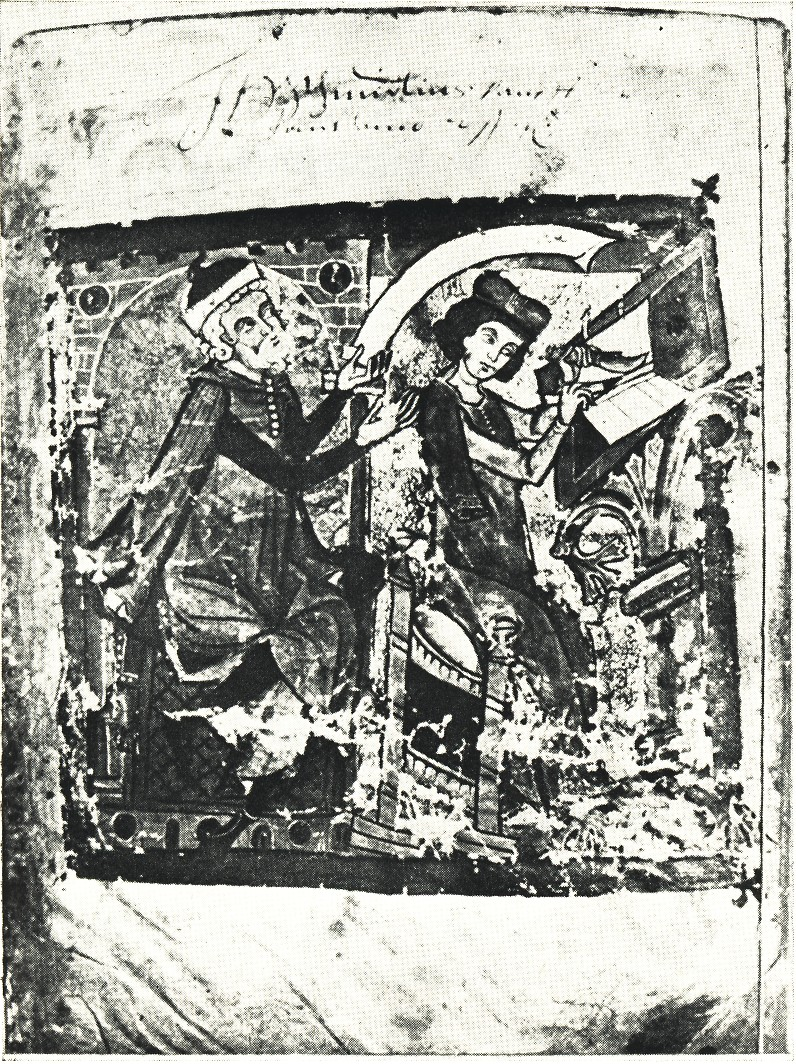 Medieval poet Rudolf von Ems (left) as old man at the beginning of his work Weltchronik.